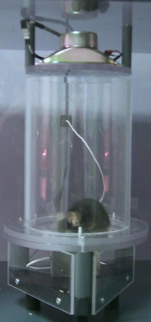 photograph of animal abuse